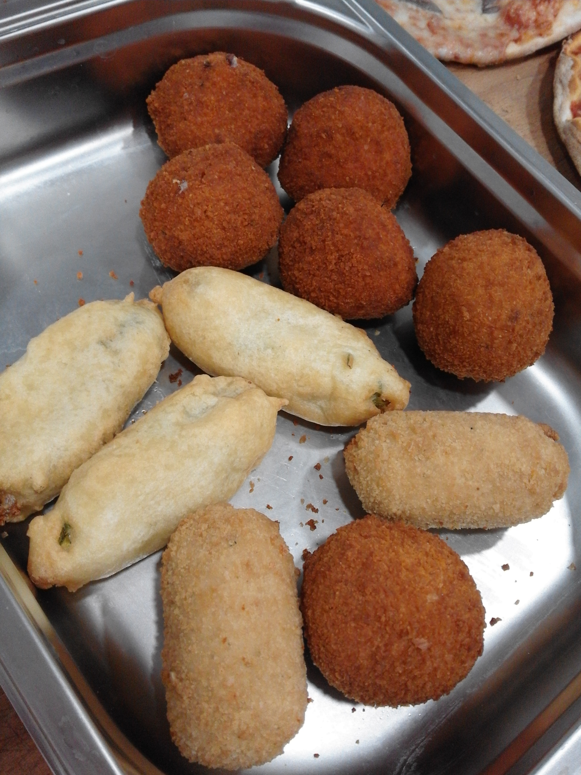 Italian Supplì